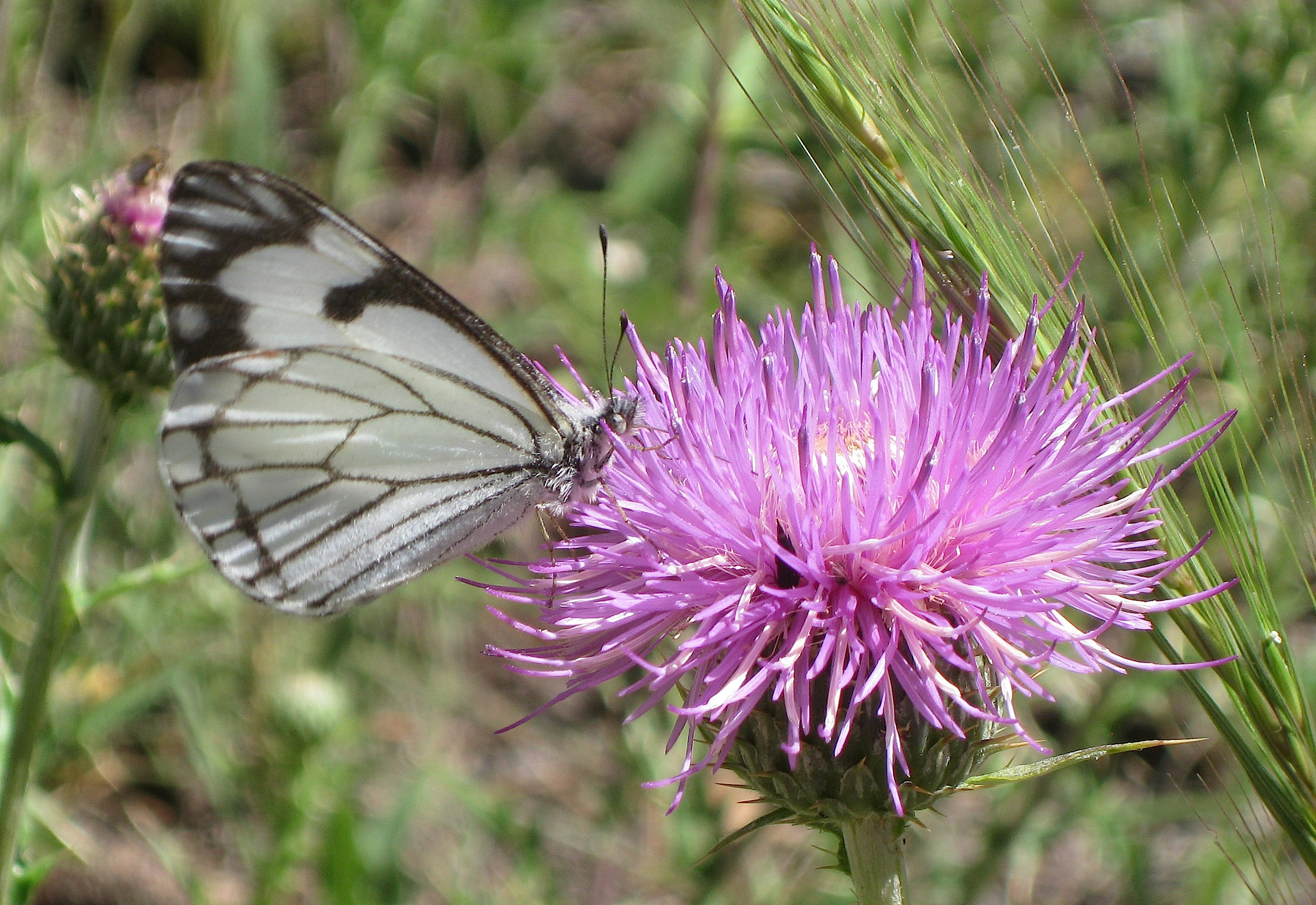 Male Pine White (Neophasia menapia) nectaring on a thistle